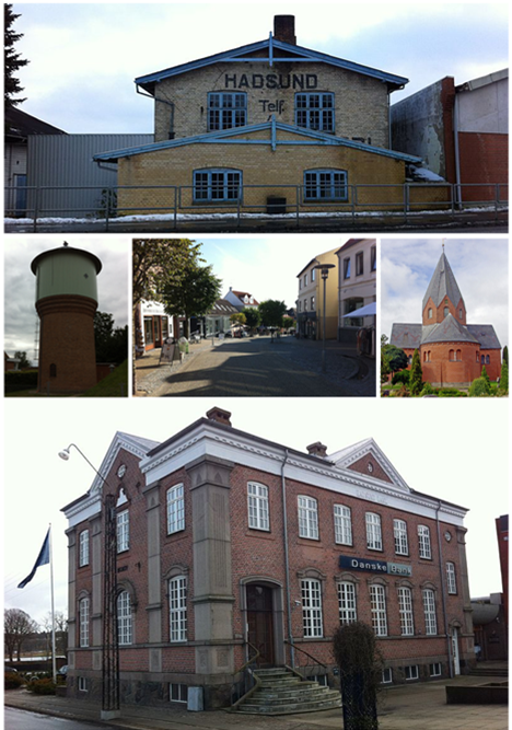 5-picture collage of Hadsund. Including; File:Det gamle Maskinsnedkeri forfra.JPG, File:Hadsund vandtårn.JPG, File:Storegade (Hadsund).JPG, File:Hadsund (Mariagerfjord).JPG and File:Hadsund Bank.JPG.